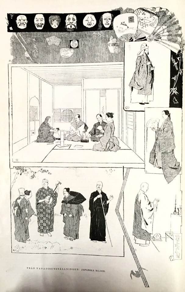 Print from the Vanadis Exhibition 1886-1887, first published in Ny illustrerad tidskrift (creator aunknown)